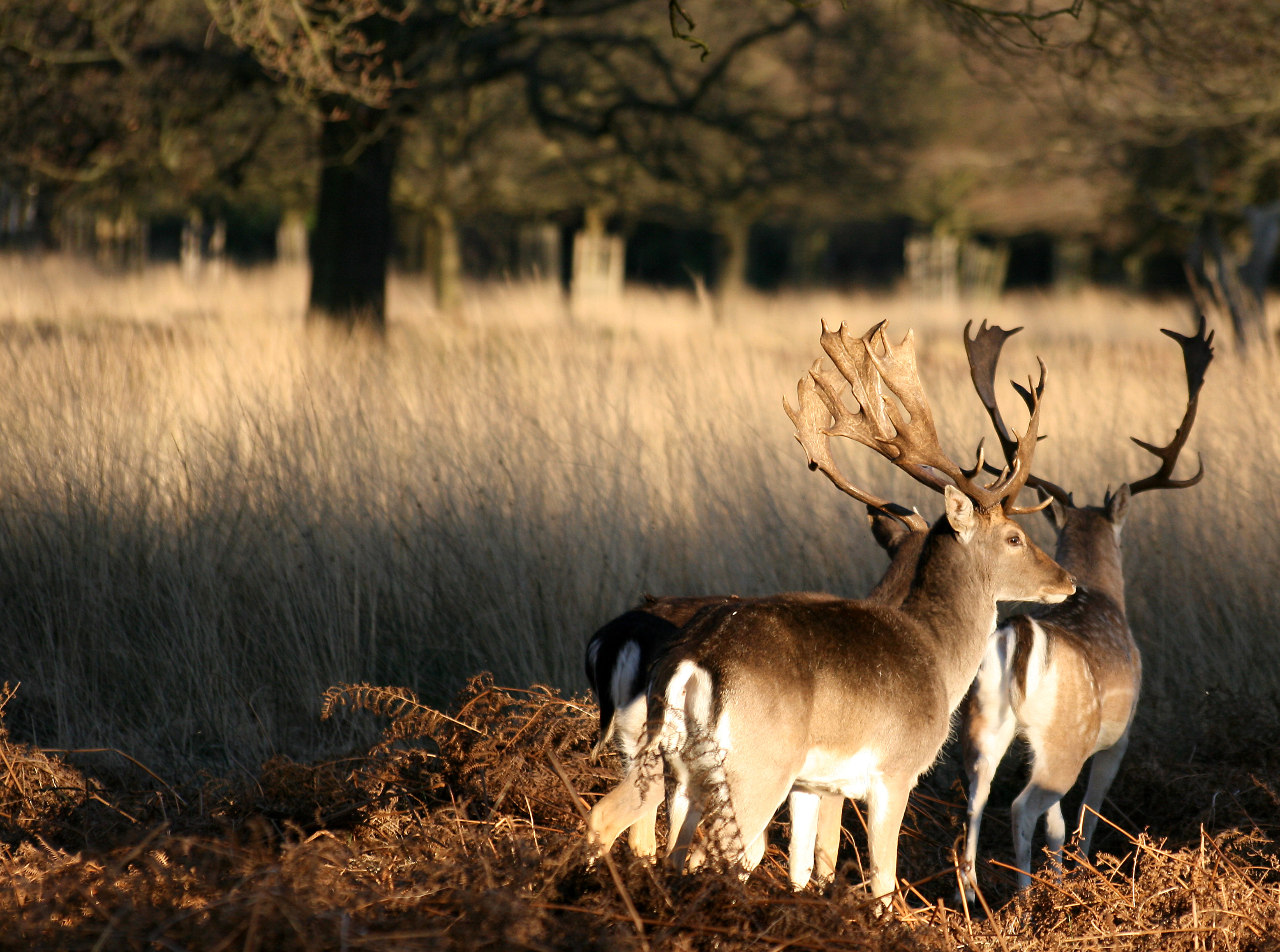 Deer - Richmond Park, London, England - Sunday 9th February 2008.